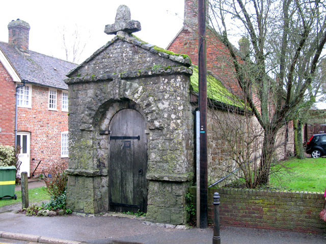 Workhouse mortuary, Lenham, A Scheduled Monument